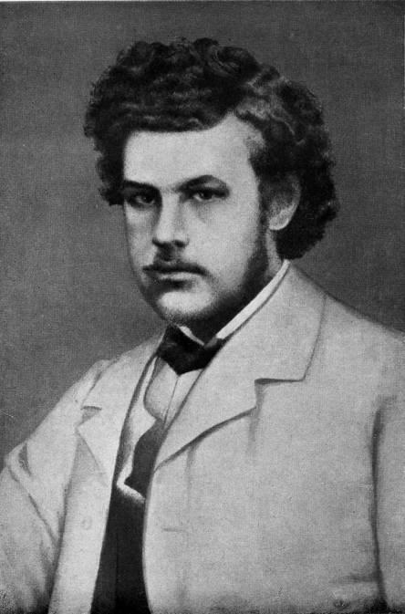 Vasily Dokuchaev while studying at the seminary.